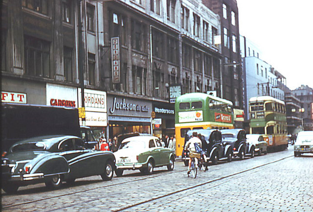 Argyle Street, Glasgow, 1962. Glasgow's Argyle Street as it was in the 1960's, with its cobbles, trams, buses and general traffic.